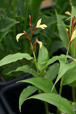 Cautleya gracilis in cultivation